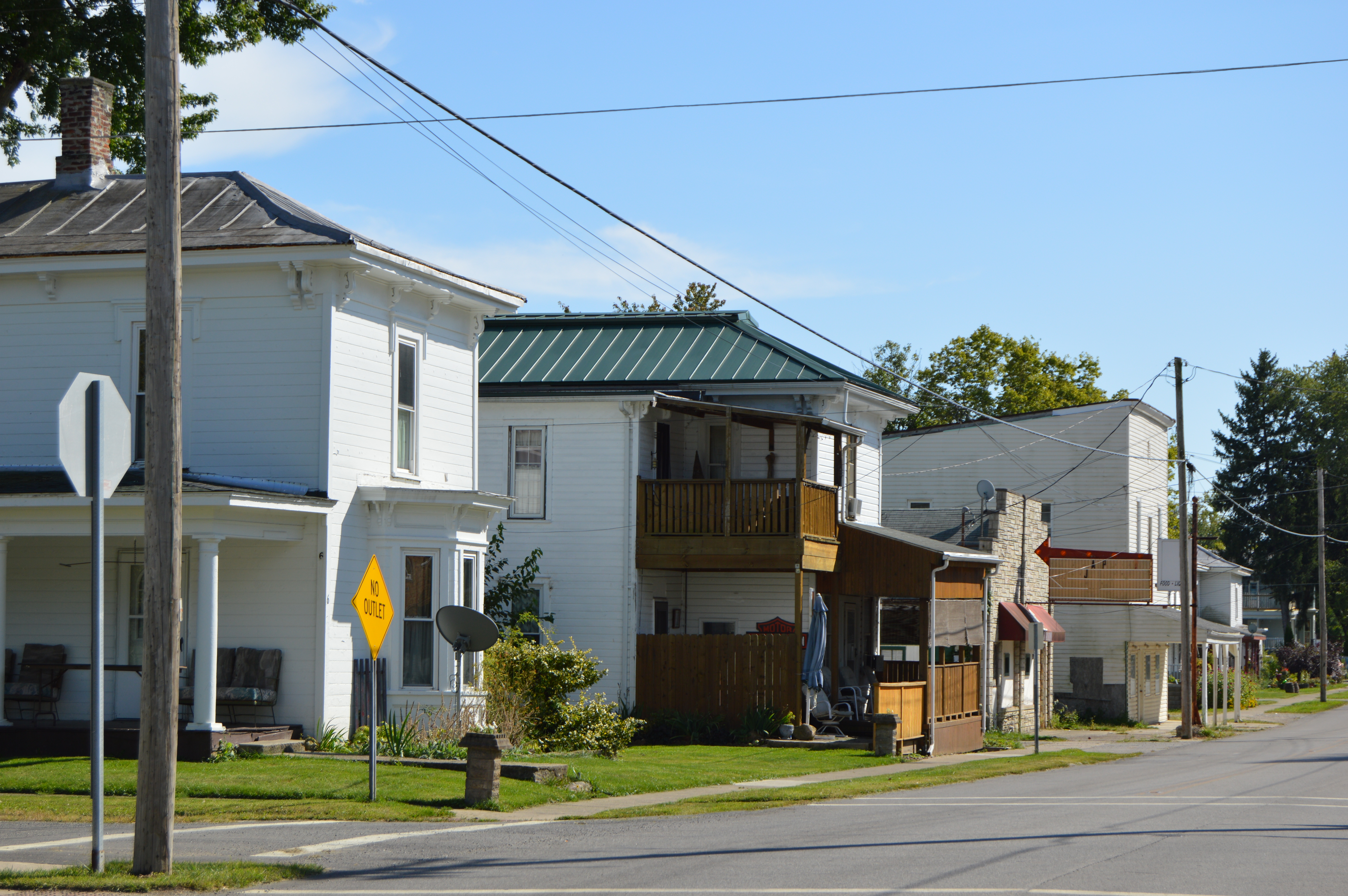 Buildings on the eastern side of Main Street (State Route 37) south of the Magnetic Street intersection in Magnetic Springs, Ohio, United States.